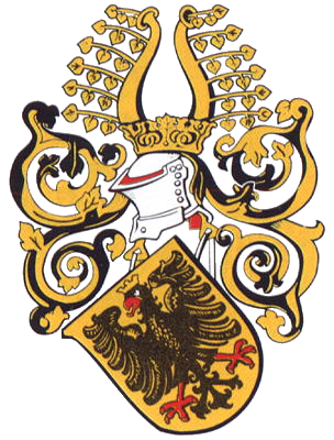 Coat of arms of the city of Nordhausen